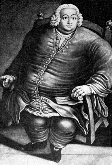 Portrait of Edward Bright, Fat man of Maldon (1721–1750)